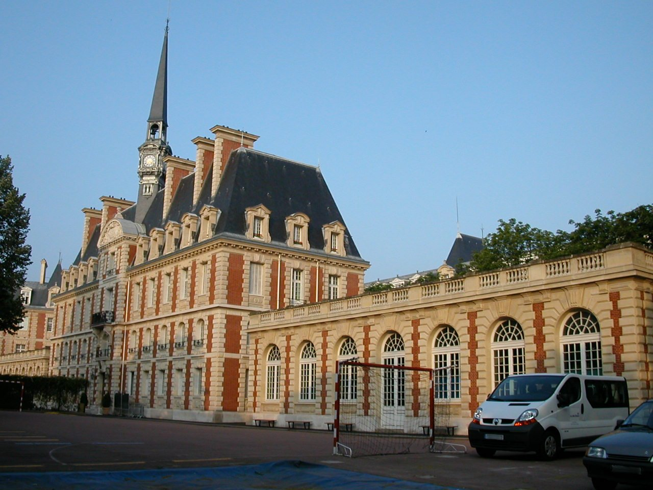 Main building of the Lycée Pasteur (Neuilly-sur-Seine, Hauts-de-Seine)